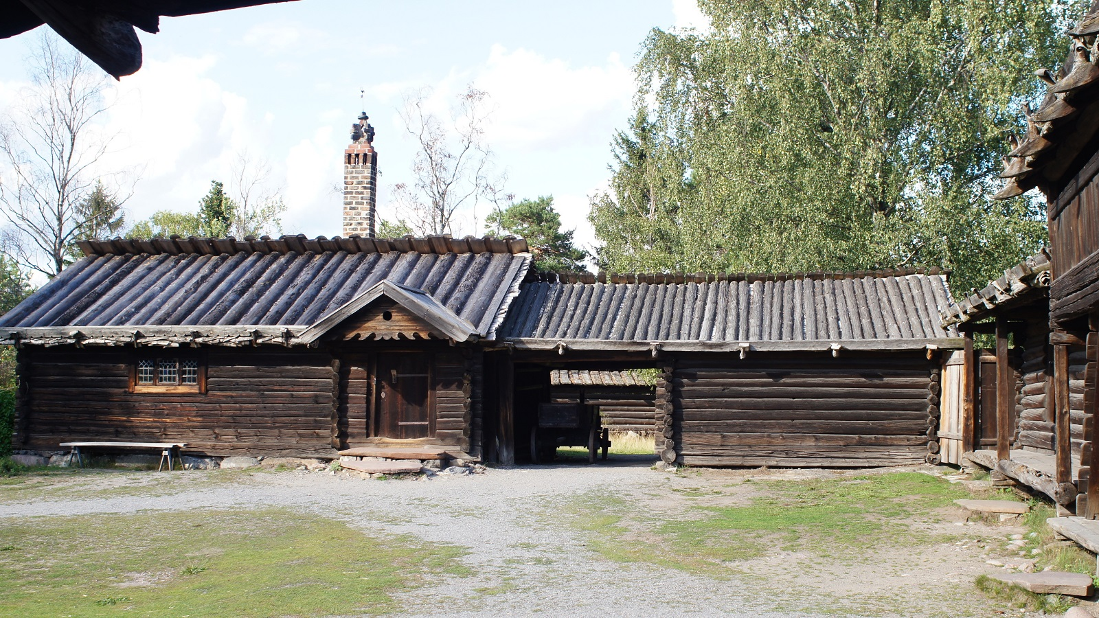 Moragården, Skansen - Stockholm - dwelling house and stable